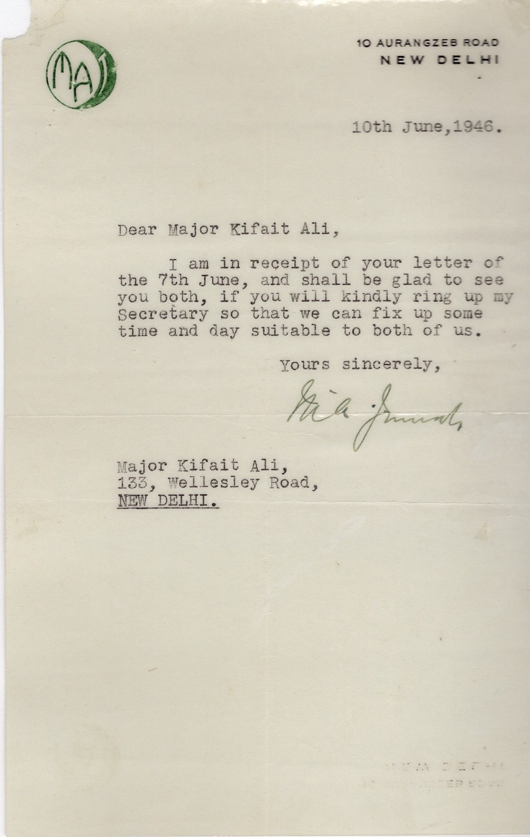 Historical letter by Quaid-e-azam